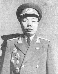 General Xiao Hua in 1955.